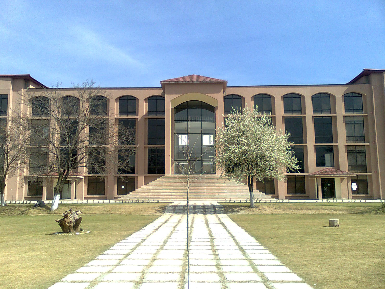 A block